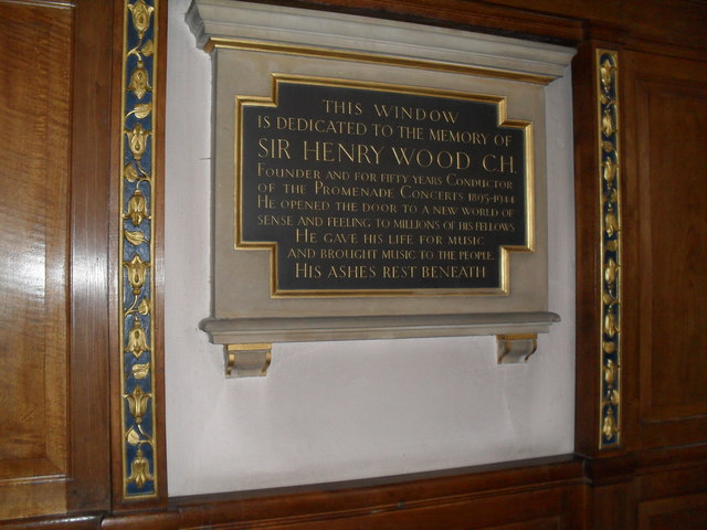 Memorial to a great man within St Sepulchre, Holborn Viaduct For more details see Henry_Joseph_Wood